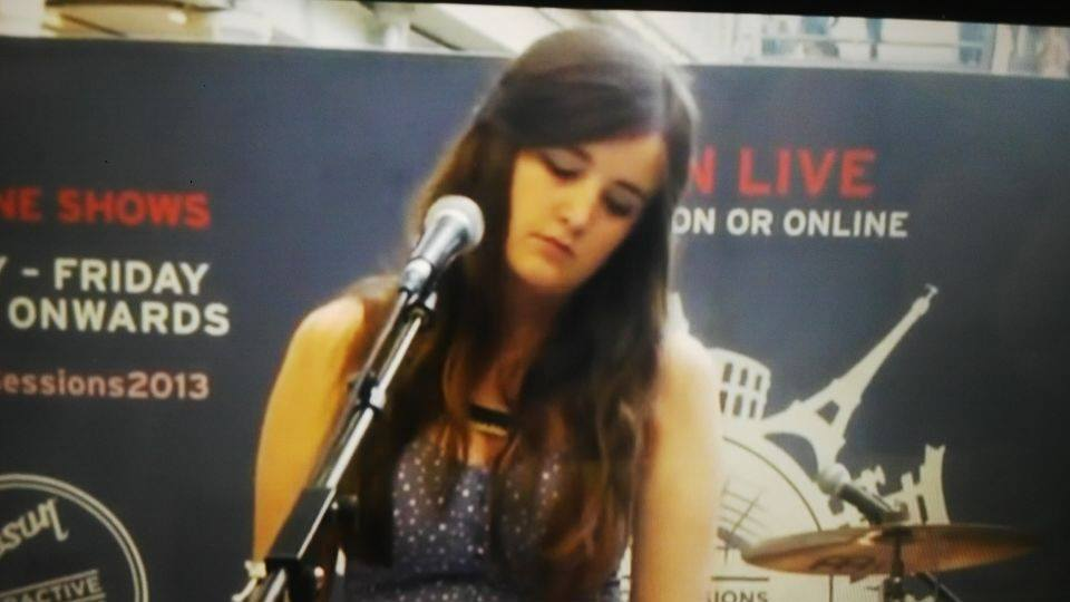 Lauren Aquilina performing at King Cross, St.Pancrass